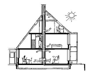 Kristinsson, Jon, 2007. Experience with the highly Energy-Efficient Building in the netherlands since 1982 - The long and interesting road from innovation to realisation. Passive House Conference, Bergenz, 13-14 April 2007. (Lecture slides)